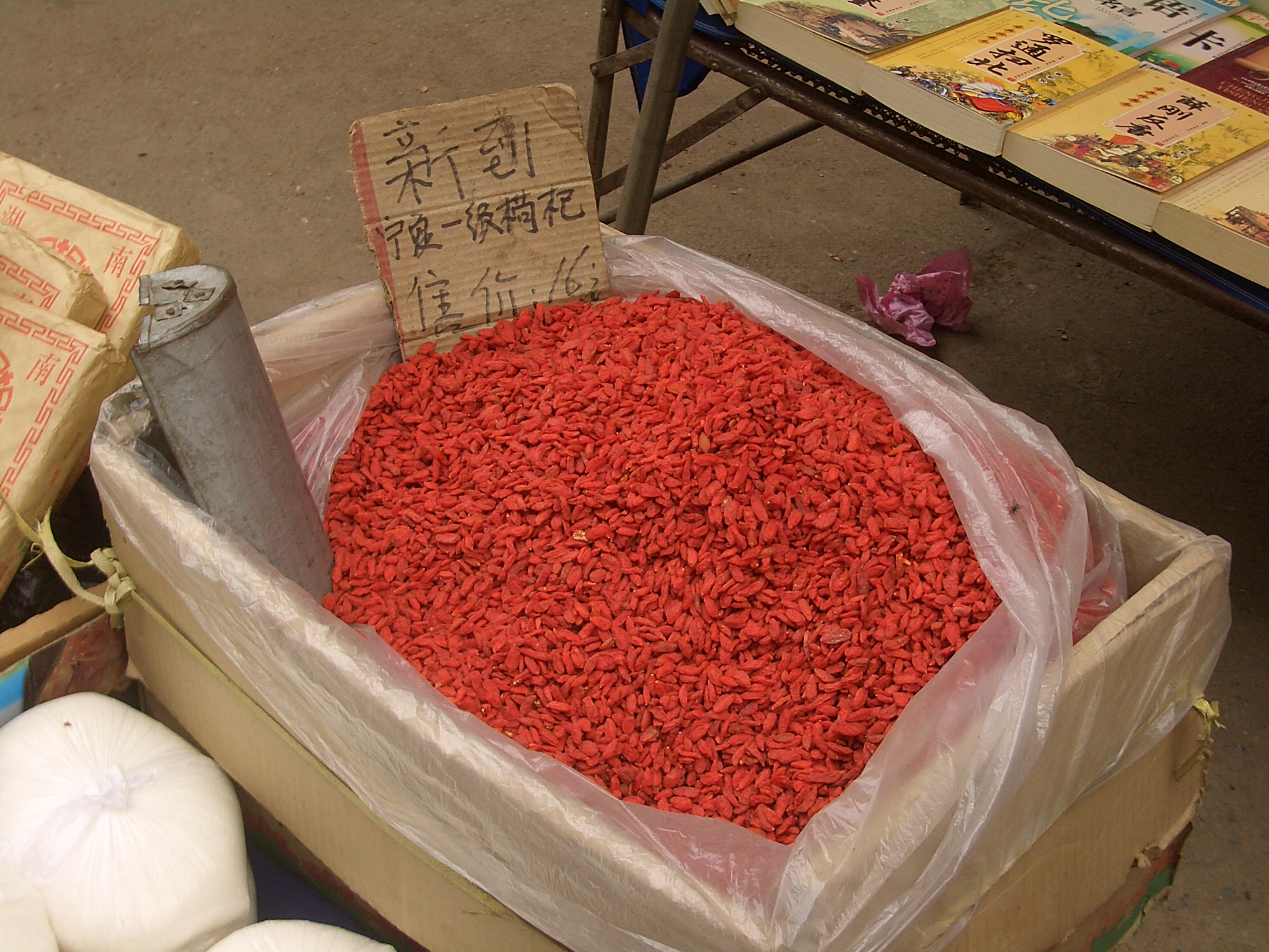 Ningxa gouji berries sold at a market in the Dongguan section of Linxia City, for CNY16/half-a-kilo